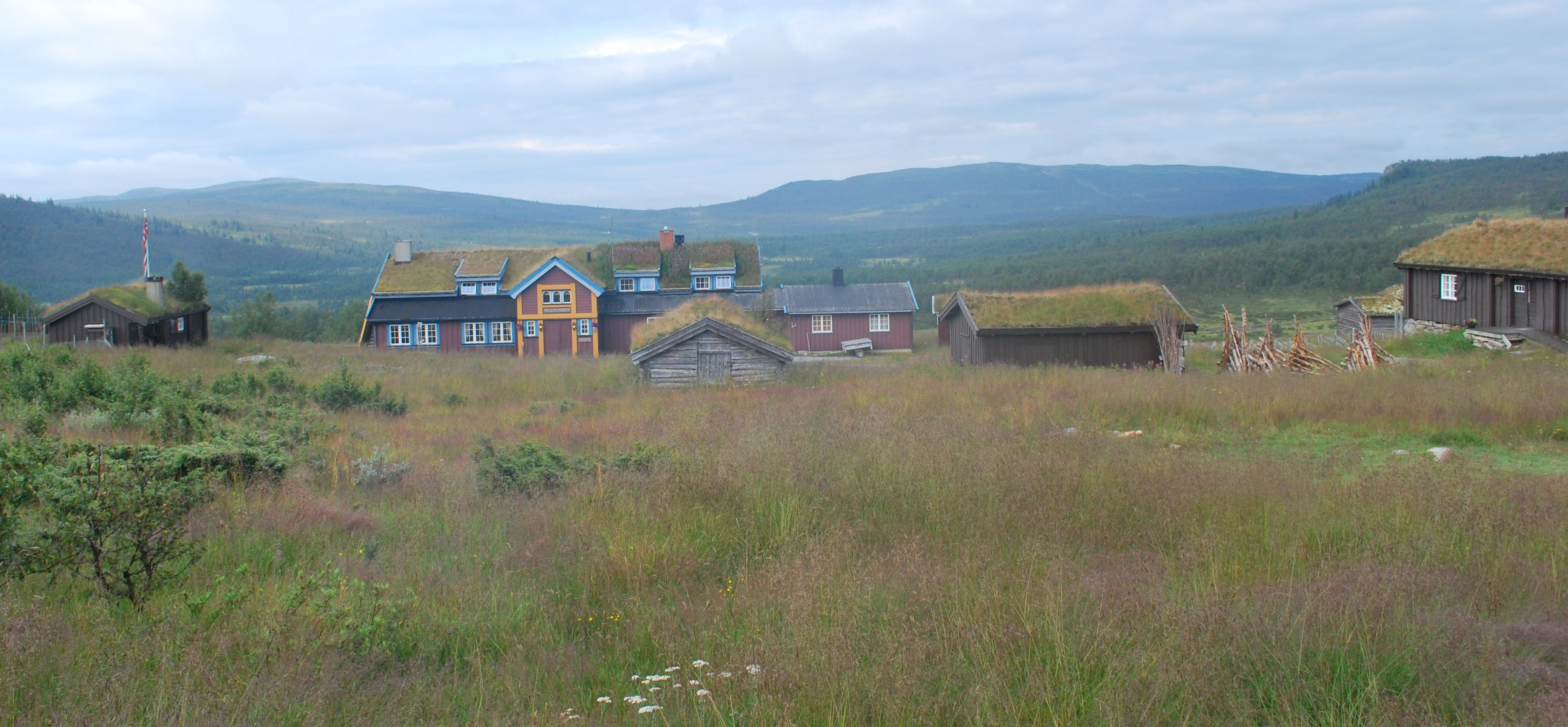 Liomseter, pension run by the Norwegian Tourist Association, Gausdal, Norway